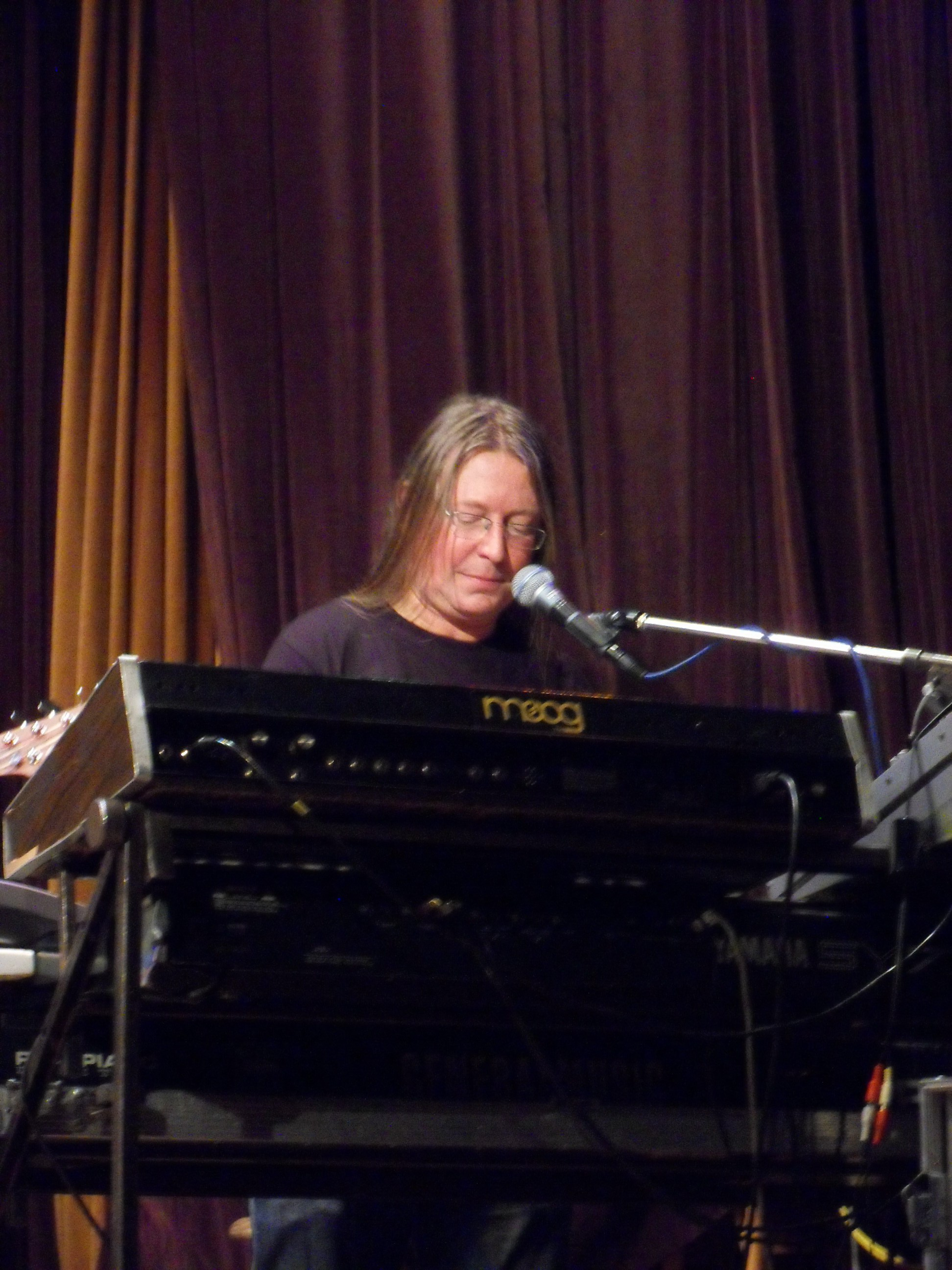 Roman Dragoun, singer and keyboardist of Czech band Futurum, Brno, Czech Republic